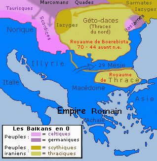 Historic map of Balkan peninsula, year 0